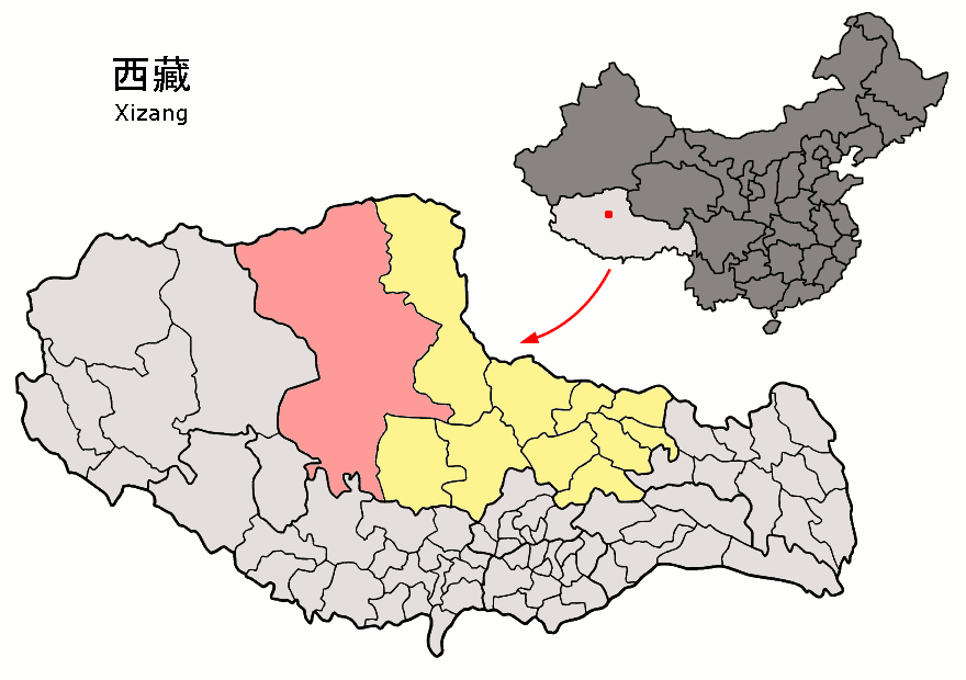 Location of Nyima County (pink) and Nagchu Prefecture (yellow) within Tibet (Xizang) autonomous region of China